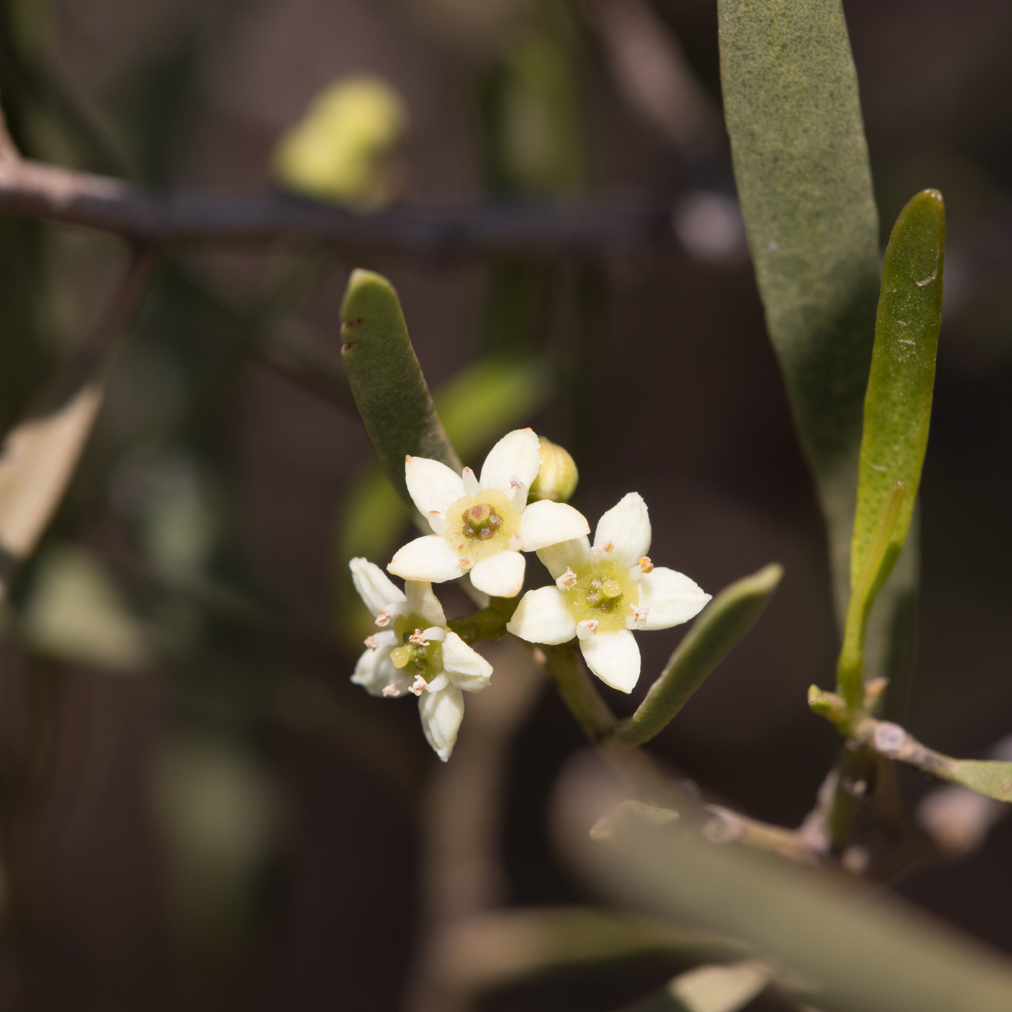 Close-up of flowers of Geijera linearifolia in Blanchetown, South Australia